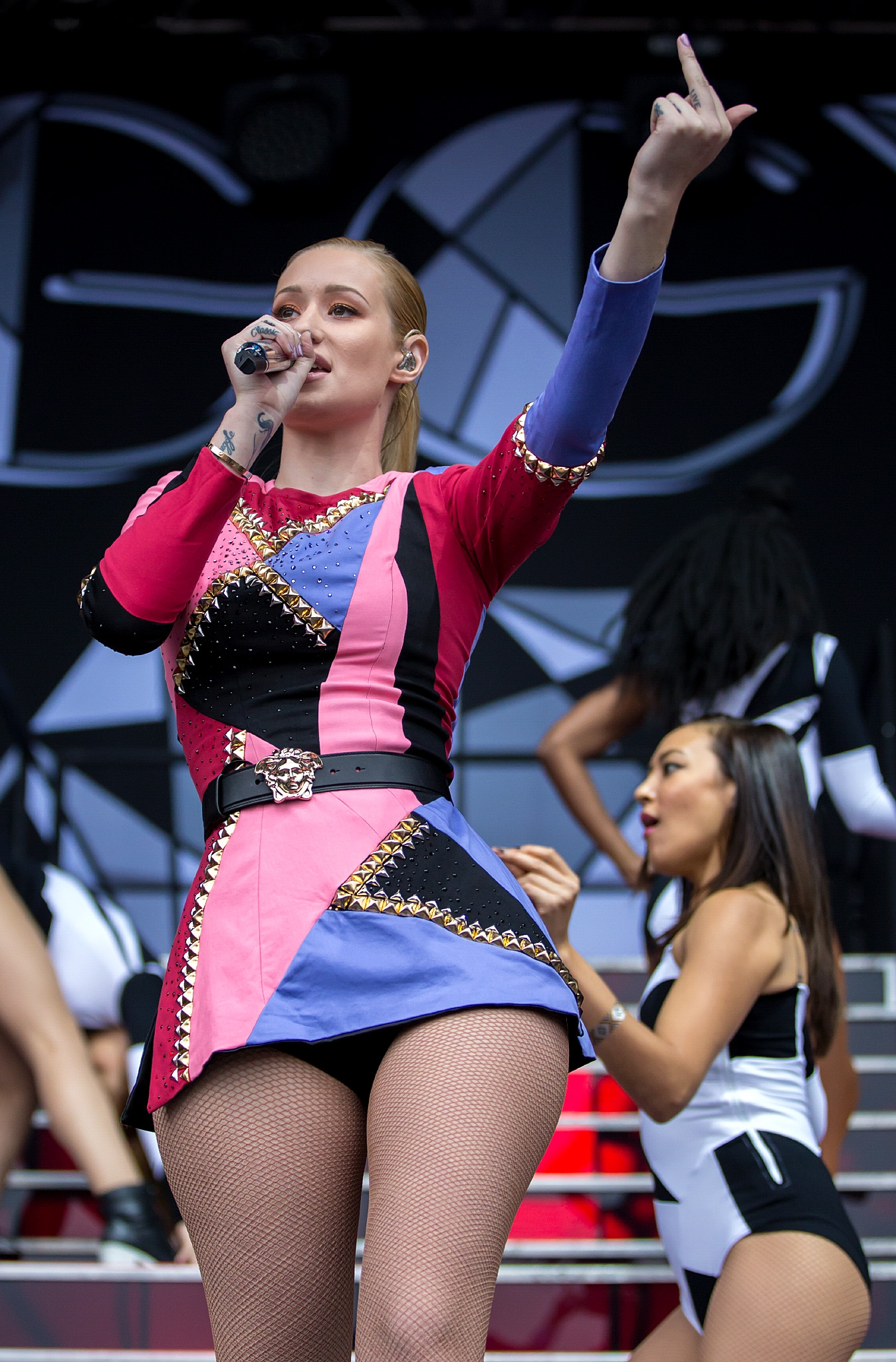 Iggy Azalea at the 2014 ACL Music Festival